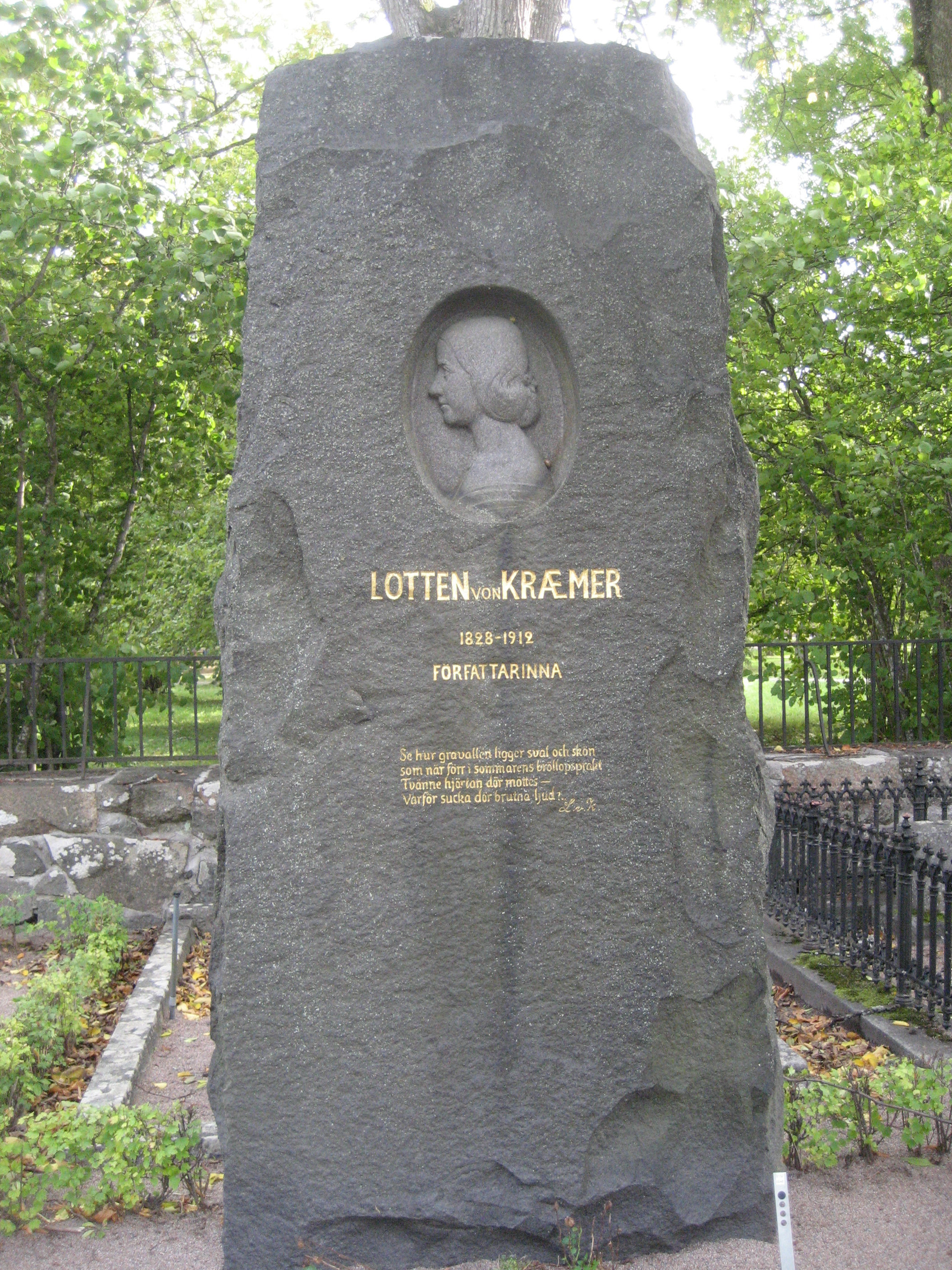 Lotten von Kraemer, Uppsala Cemetery (Sweden)